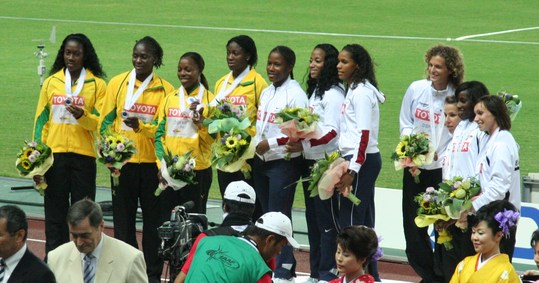 World Athletics Championships 2007 in Osaka - Victory ceremony for the women's 4*100 metres relay (Allyson Felix not present among US team due to preparation for the 4*400 metres relay)